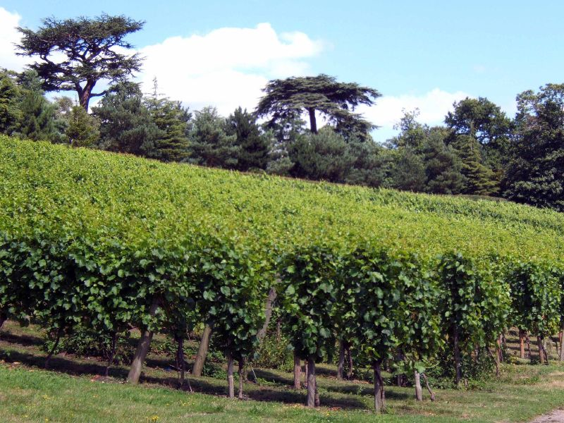 Painshill Park